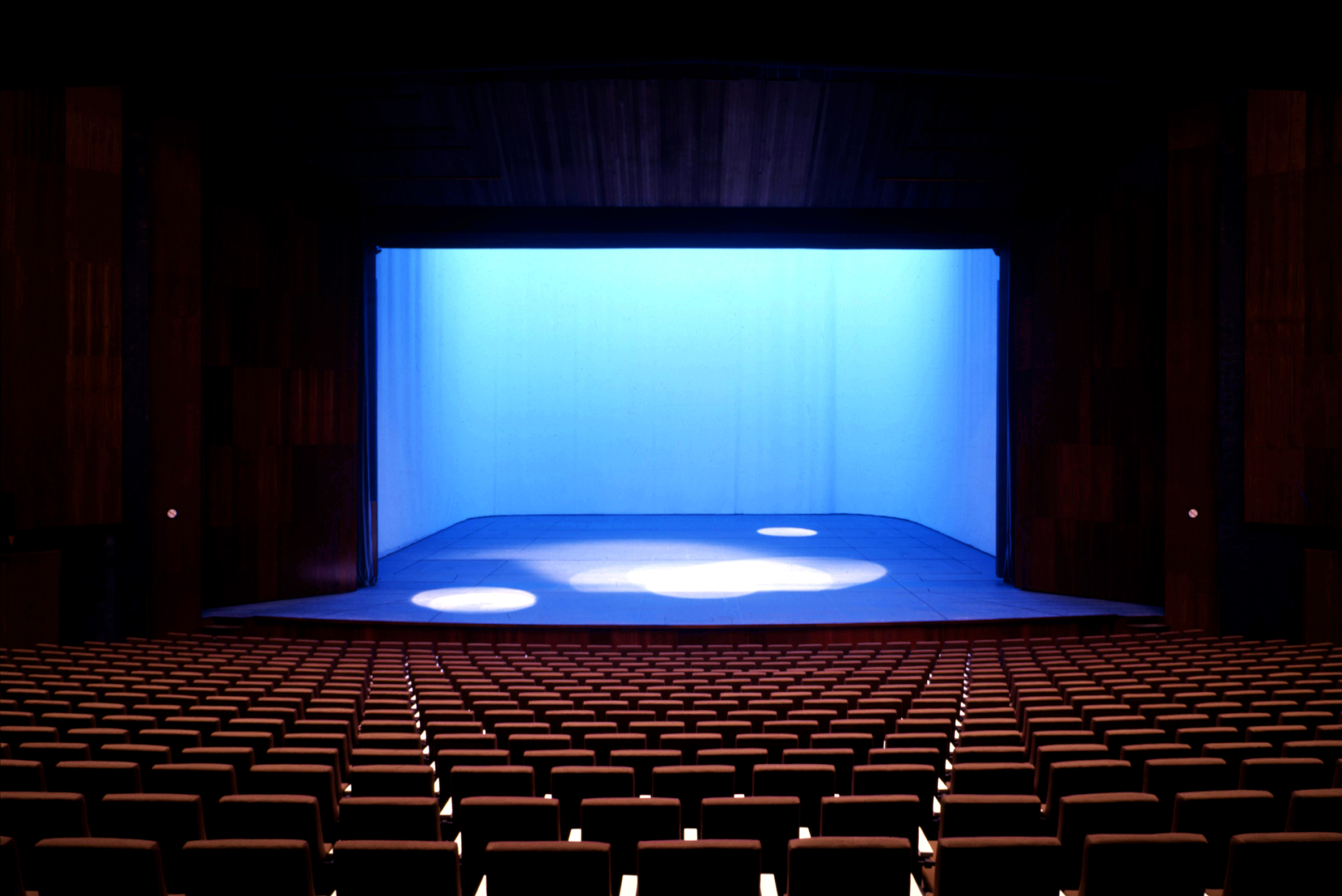 "The Performance of Modernity: Atatürk Kültür Merkezi, 1946-1977" September 21, 2012-January 6, 2013, SALT Galata, Open Archive 1969: The buiding was opened on April 12th, with the name The Cultural Palace. It was assigned to two sperate organizations, İstanbul State Opera and Ballet and İstanbul State Theater. İstanbul Cultural Palace, Main Stage SALT Research, Hayati Tabanlıoğlu Archive “Modernin İcrası: Atatürk Kültür Merkezi, 1946-1977” 21 Eylül 2012 - 6 Ocak 2013, SALT Galata, Açık Arşiv 1969: Bina 12 Nisan’da, İstanbul Kültür Sarayı ismiyle hizmete açıldı. Birbirinden bağımsız kuruluşlar olan Devlet Opera ve Balesi ile Devlet Tiyatroları’na tahsis edildi. İstanbul Kültür Sarayı Büyük Sahne SALT Araştırma, Hayati Tabanlıoğlu Arşivi